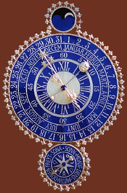 Astronomical clock at House of the Blackheads in Riga